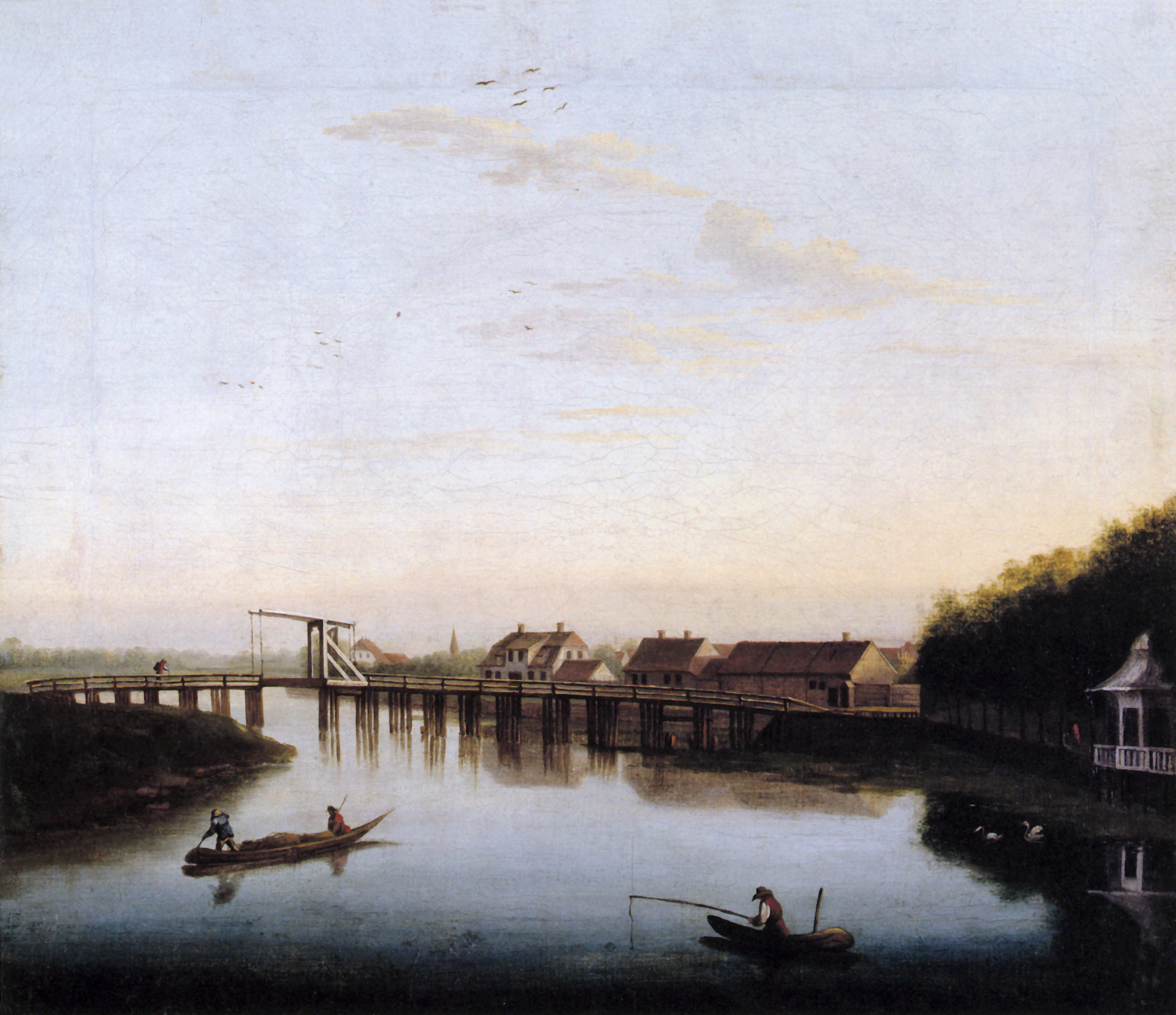 Jakob Philipp Hackert, The Spree with the Palace Bridge by Charlottenburg II(1762), Potsdam, Stiftung Preussische Schlösser und Gärten Berlin-Brandenburg.